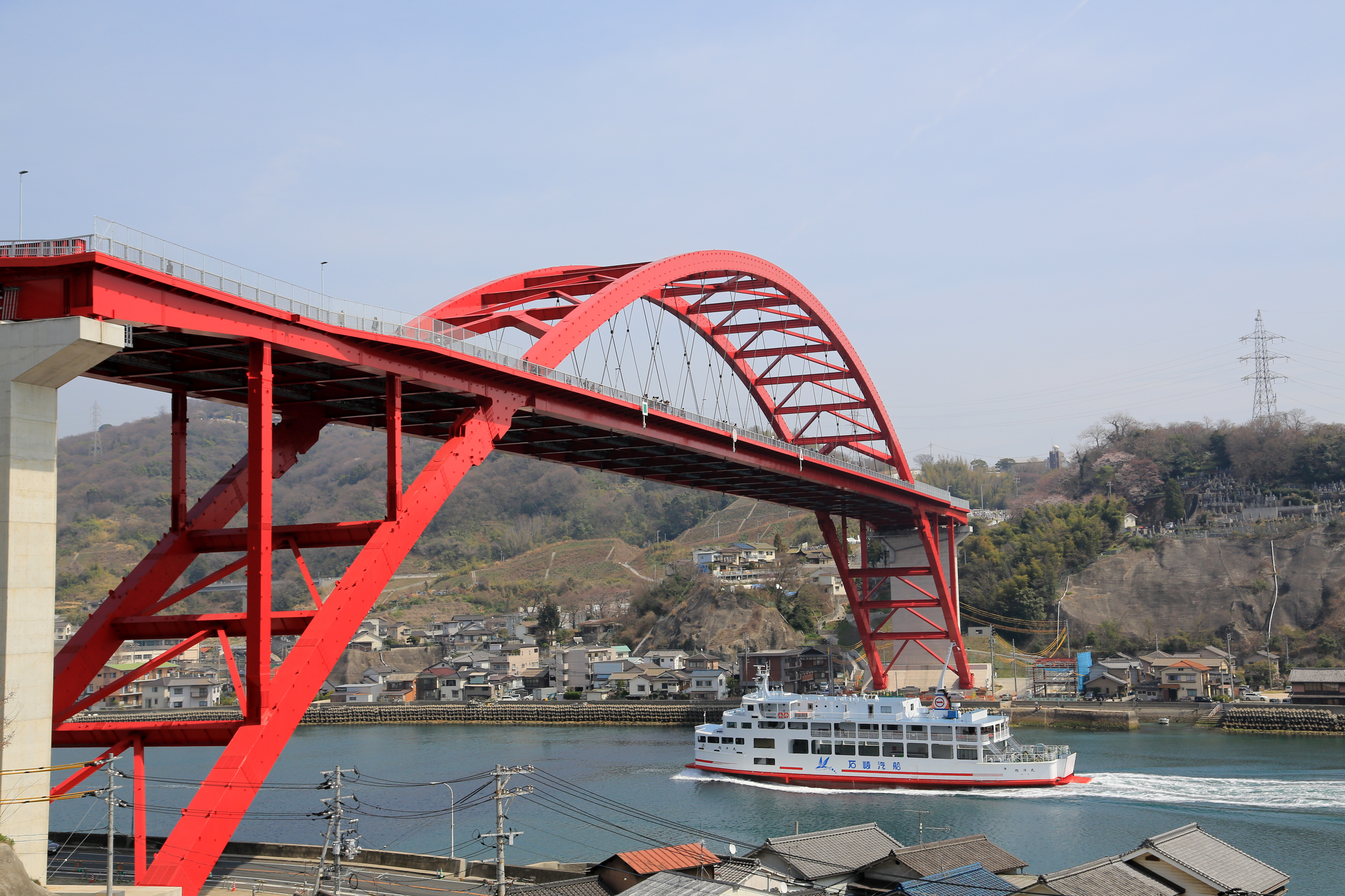 NorioNAKAYAMA